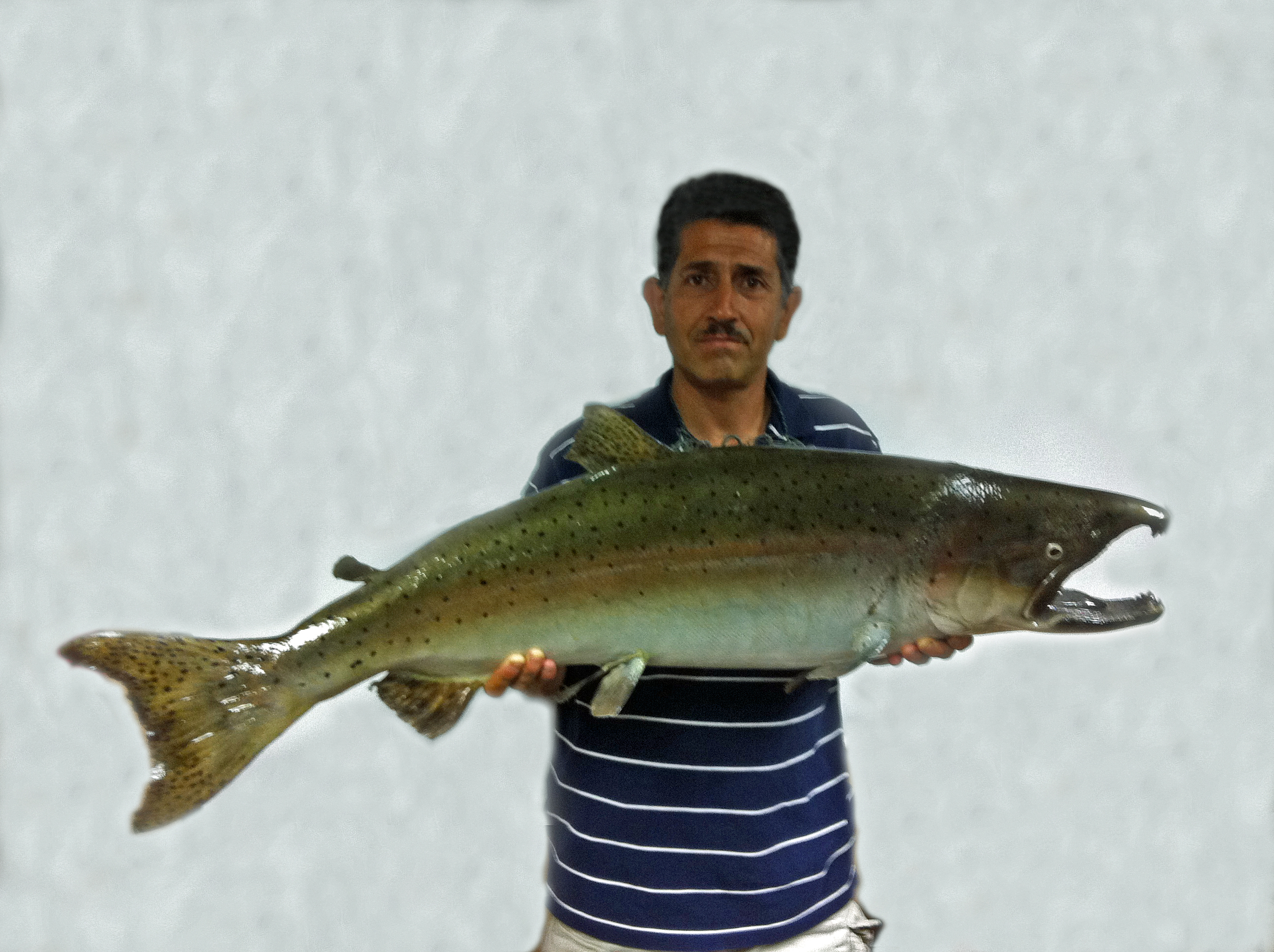 Roger Castillo holding Chinook salmon found mid-October 1996 in San Tomas Aquino Creek beneath Highway 237, Santa Clara, California. The salmon is now a taxidermy wall mount specimen and this shot was taken in front of a movie screen with some additional editing out of background to solid white so that I could emphasize the difference in size between the man and the fish only.